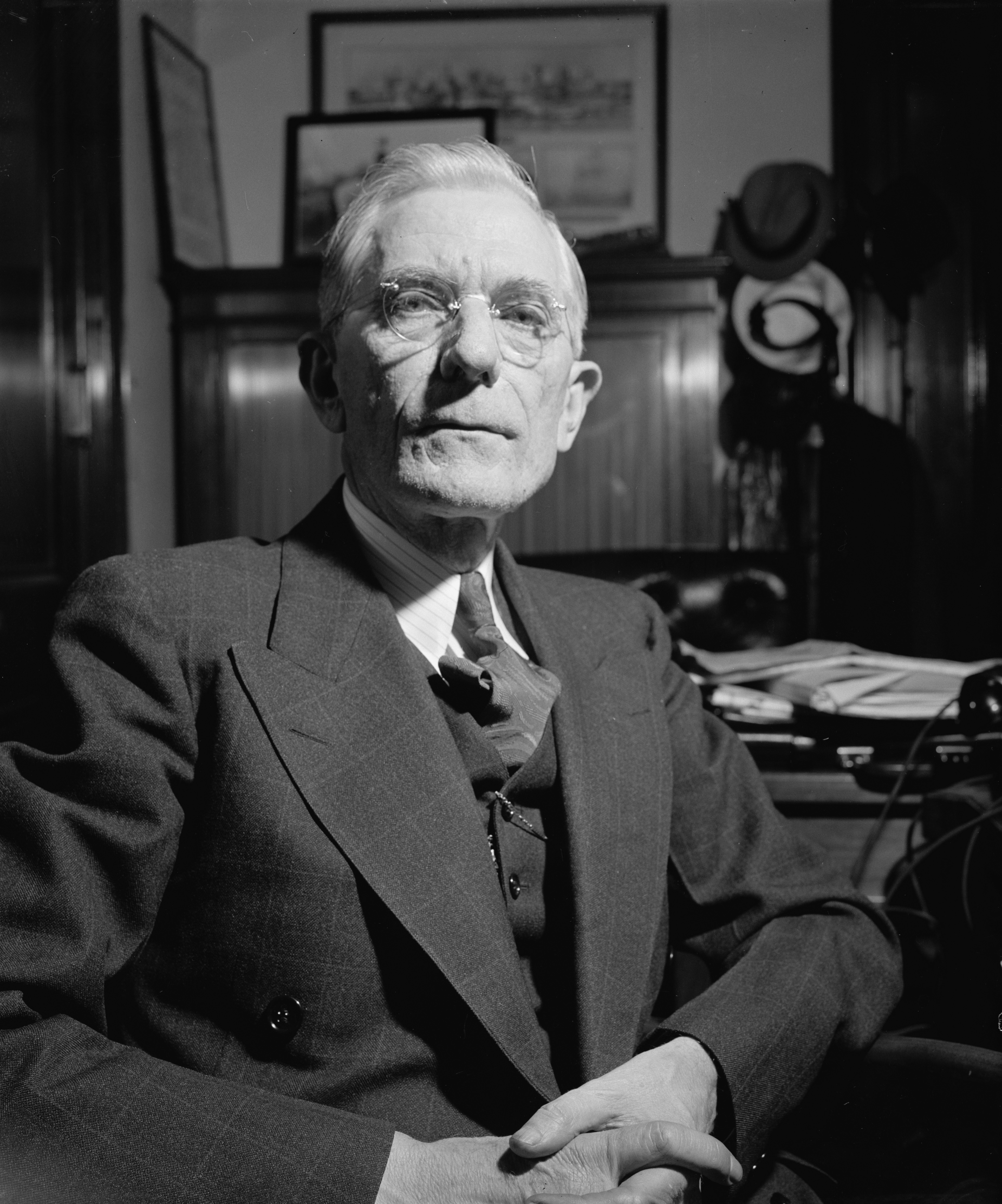 Title: Florida Senator. Washington, D.C., April 29. A new informal photograph of Senator Charles O. Andrews, Democrat of Florida Abstract/medium: 1 negative : glass ; 4 x 5 in. or smaller